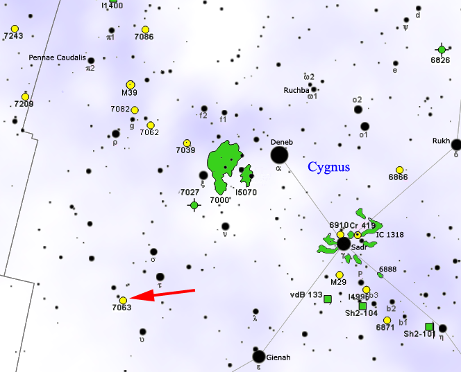 Map of NGC 7063